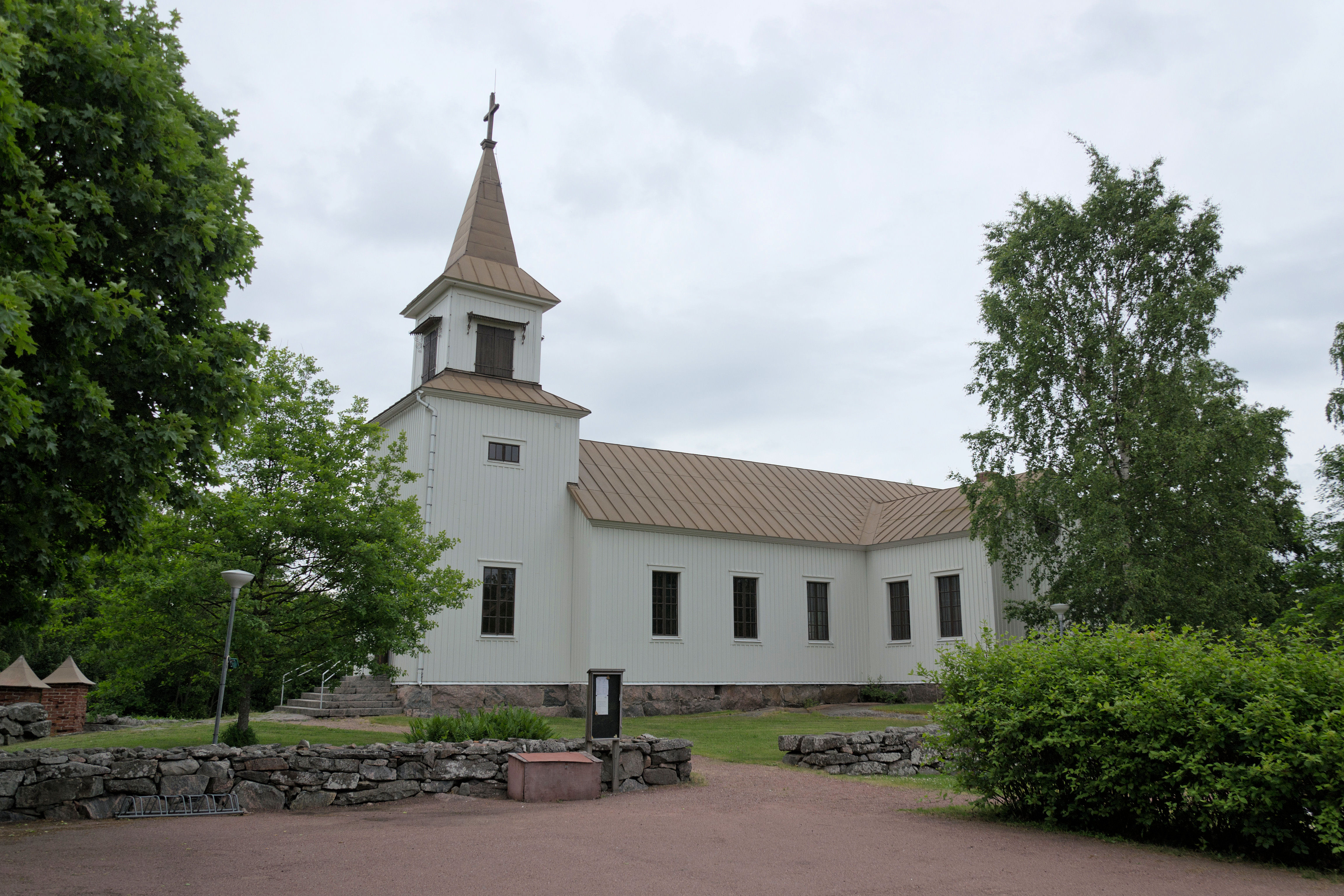 Brändö church